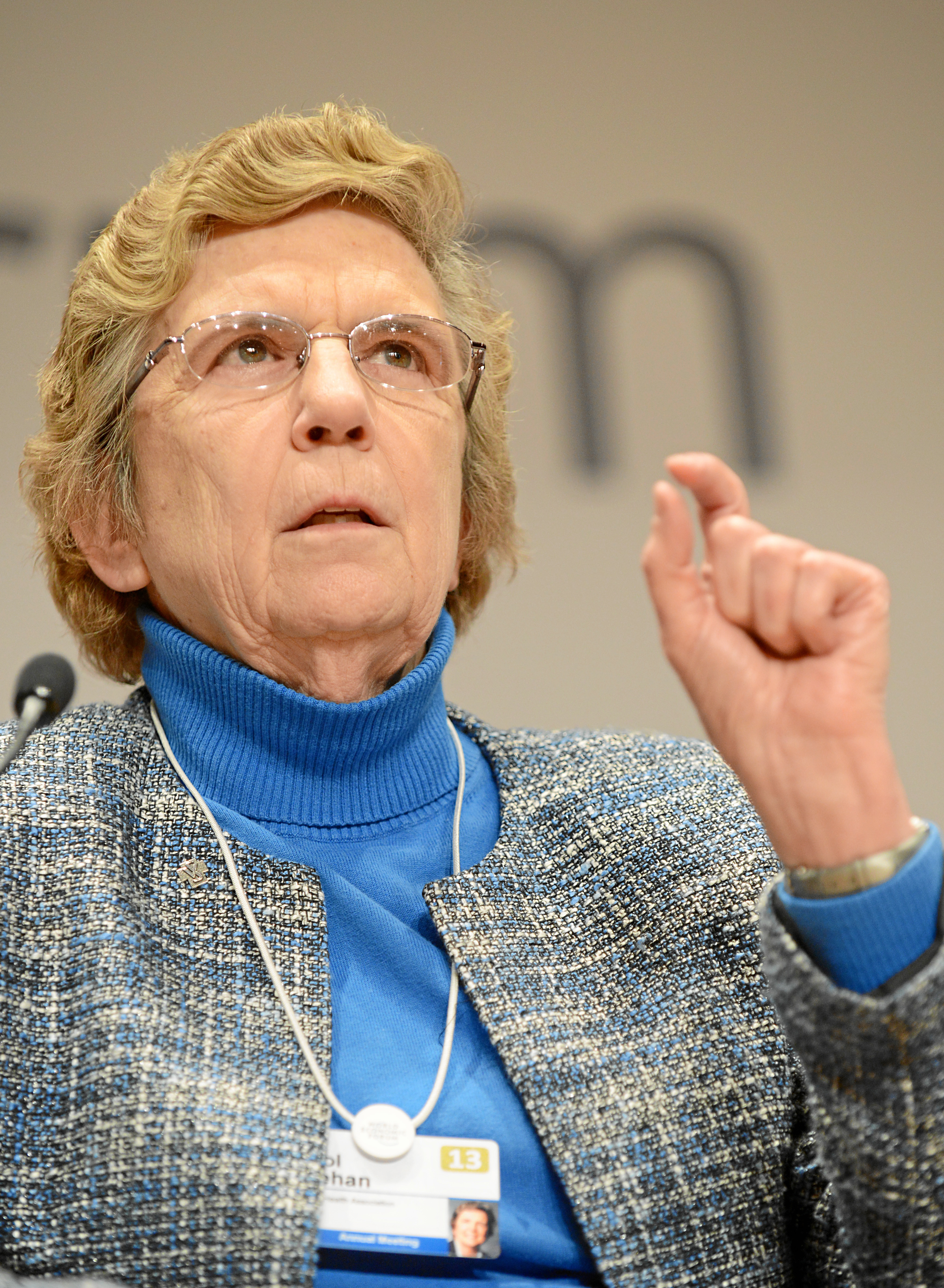 DAVOS/SWITZERLAND, 25JAN13 - Carol Keehan, President and Chief Executive Officer, Catholic Health Association, USA makes a point during the session 'Open forum: Is Religion Outdated in the 21st Century?' at the Annual Meeting 2013 of the World Economic Forum at the Swiss alpine high school in Davos, Switzerland, January 25, 2013. . . Copyright by World Economic Forum. . Michael Wuertenberg